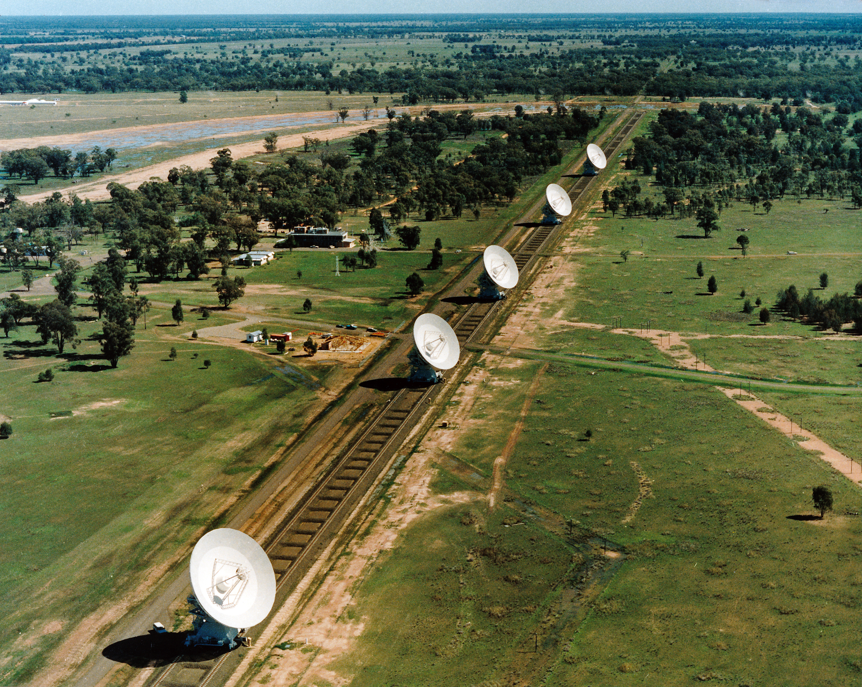 The Australia Telescope Compact Array was officially opened by Prime Minister, Bob Hawke on 2 September, 1988. The array comprises six antennas (five shown here), each 22 metres in diameter. Located near Narrabri in NSW, it can be linked to another antenna near Coonabarabran, and to the Parkes radio telescope. Such linking creates a virtual telescope hundreds of kilometers in diameter, able to see much more detail than any of the individual telescopes.